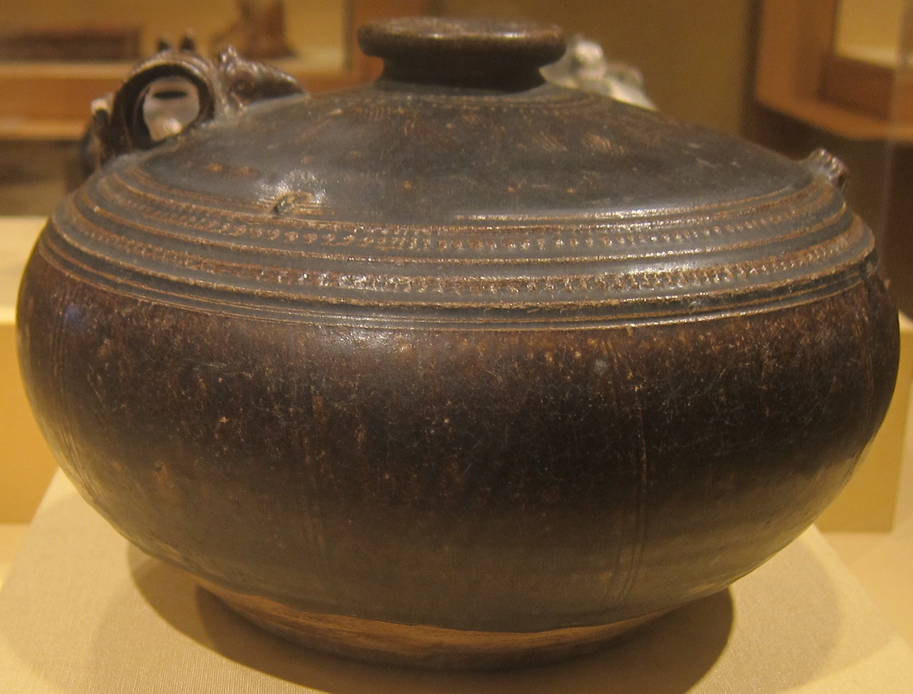 Ewer from Cambodia, Angkorian era, 12th century, glazed stoneware, Honolulu Academy of Arts